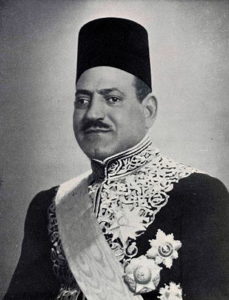 Mustafa el-Nahhas basha